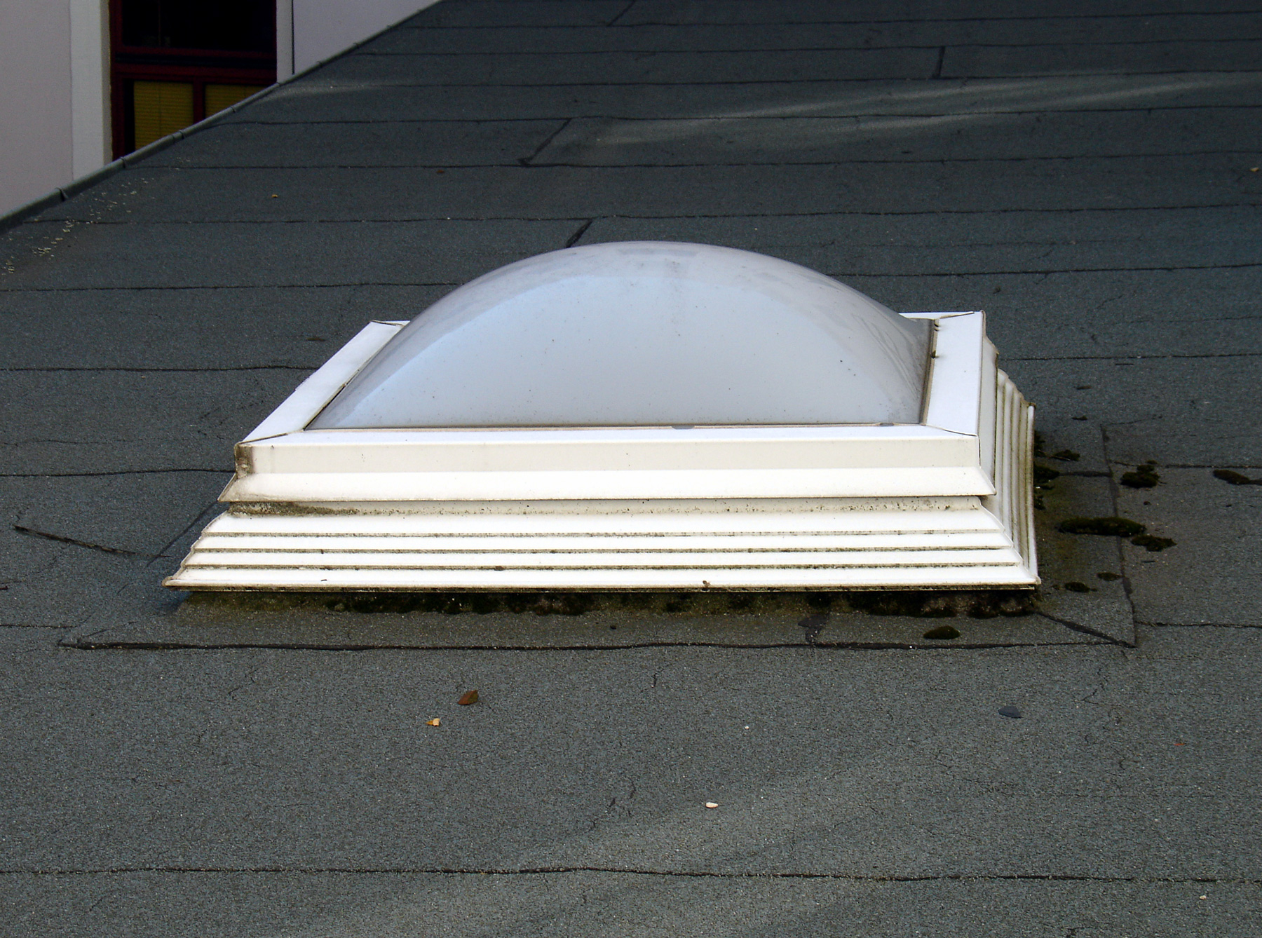 A modern skylight as a small cuppola mounted on a roof